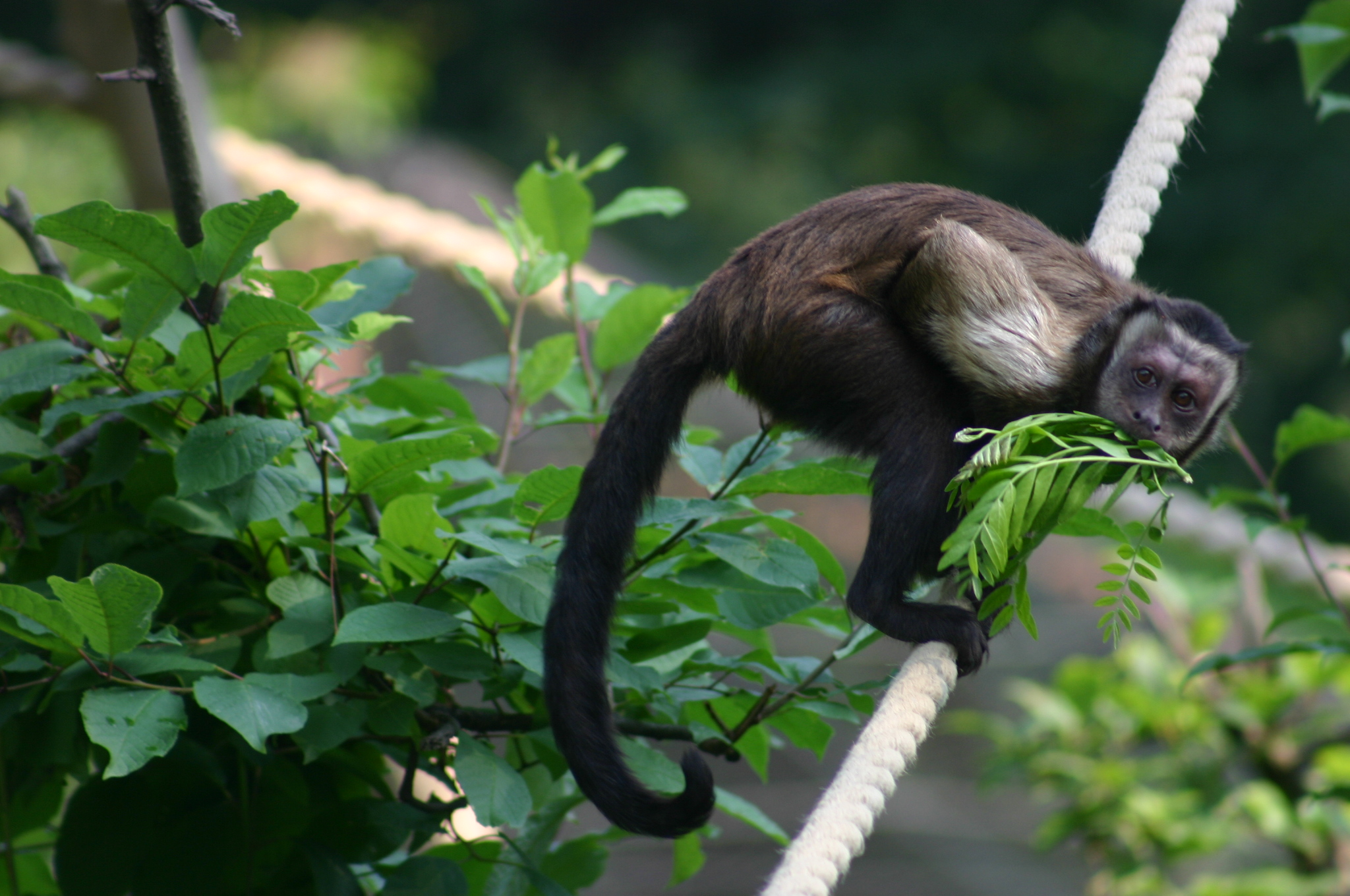 Sapajus apella margaritae